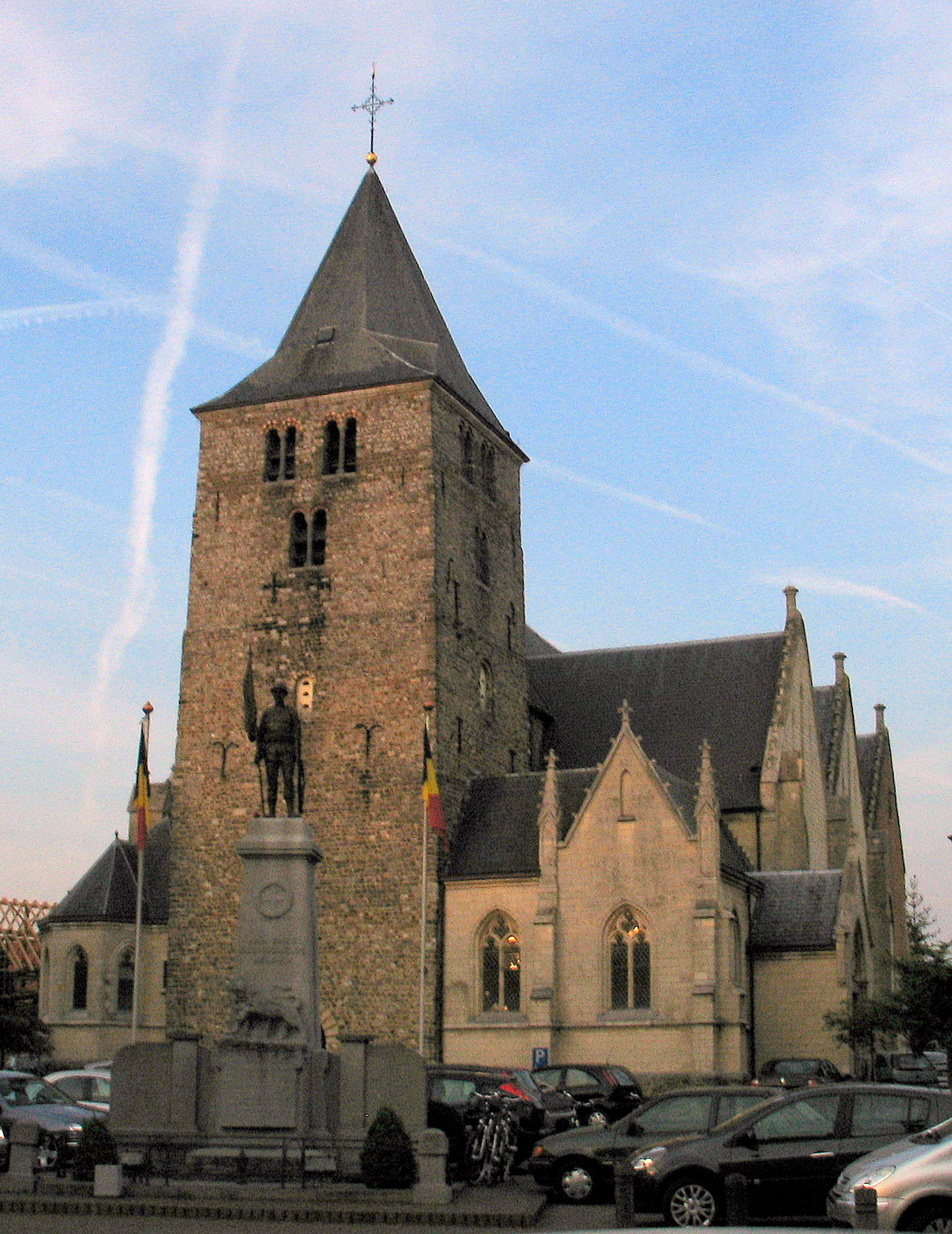 Church of Wellen, Province of Limburg, Belgium